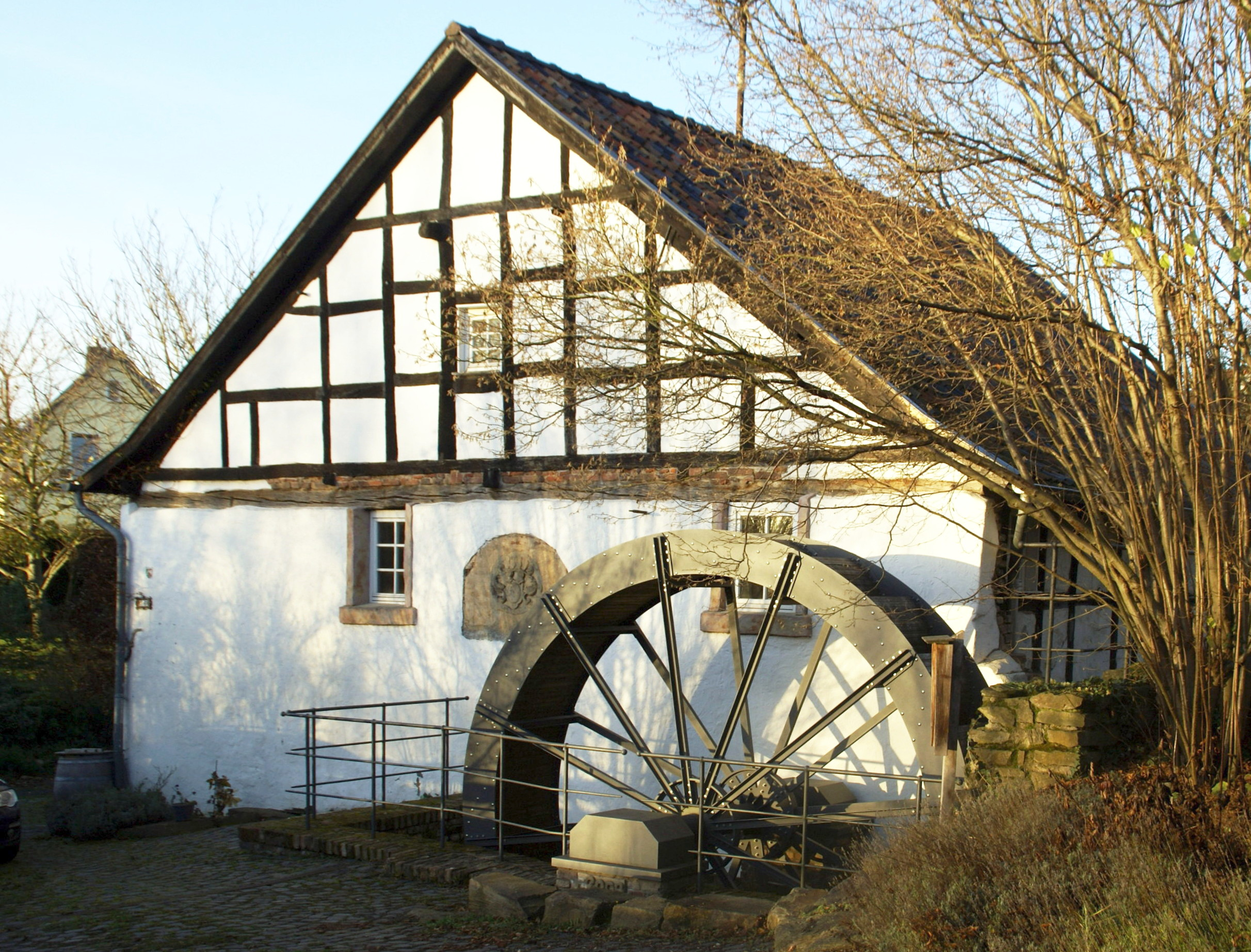 Former mill in Lüftelberg, Schloßstraße 6